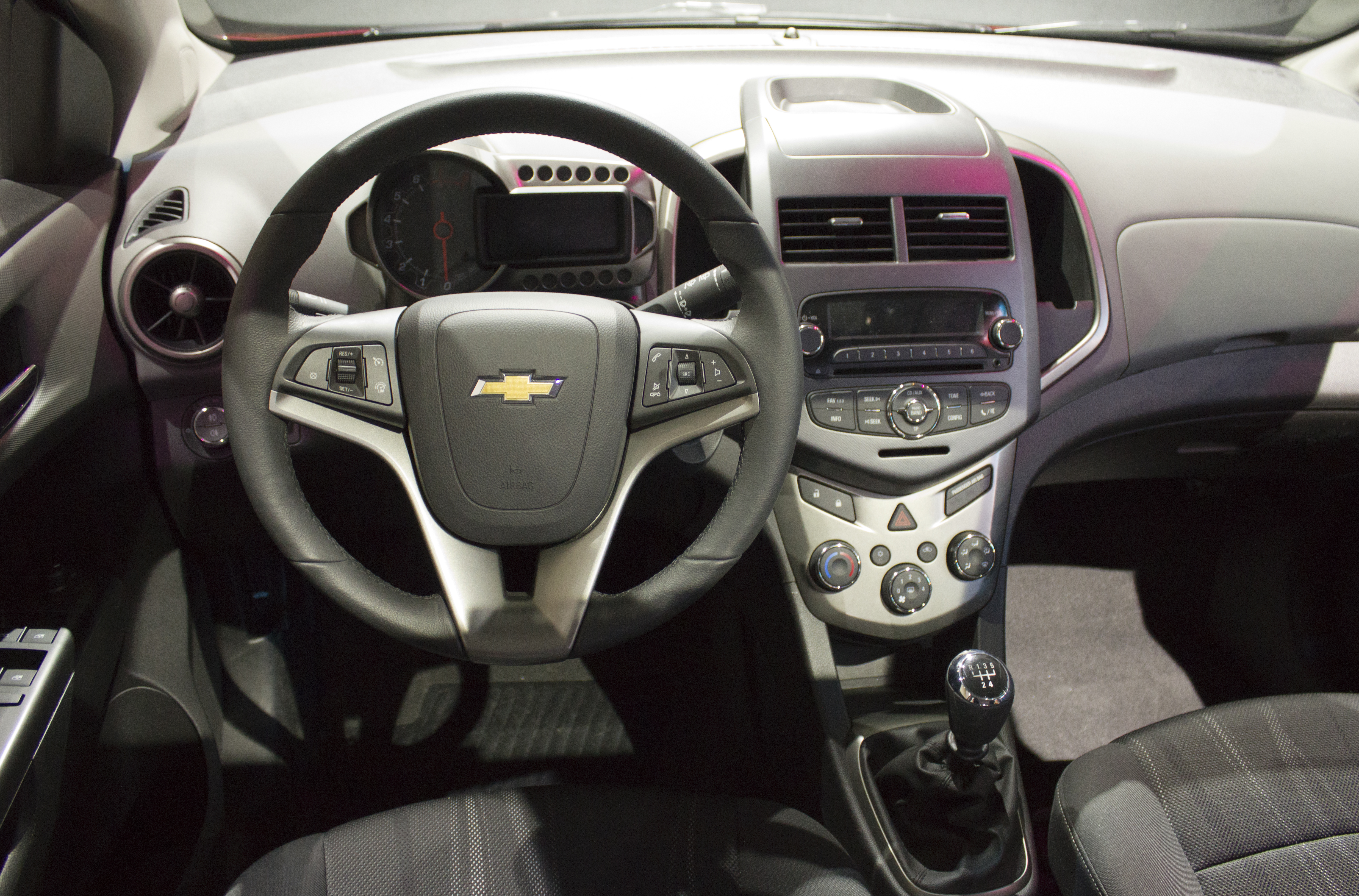 Taken at the 2011 Canadian International Auto Show